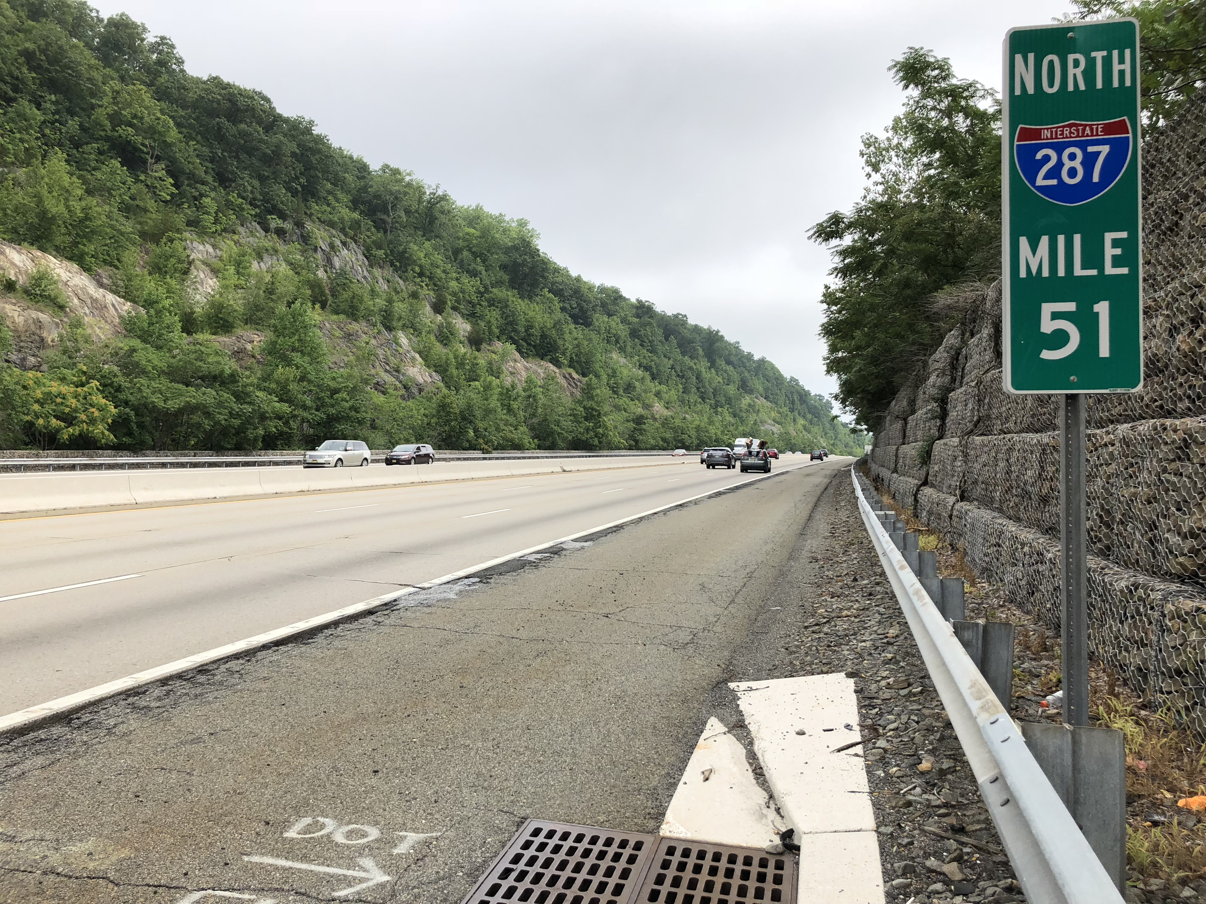 View north along Interstate 287 between Exit 47 and Exit 52 in Kinnelon, Morris County, New Jersey